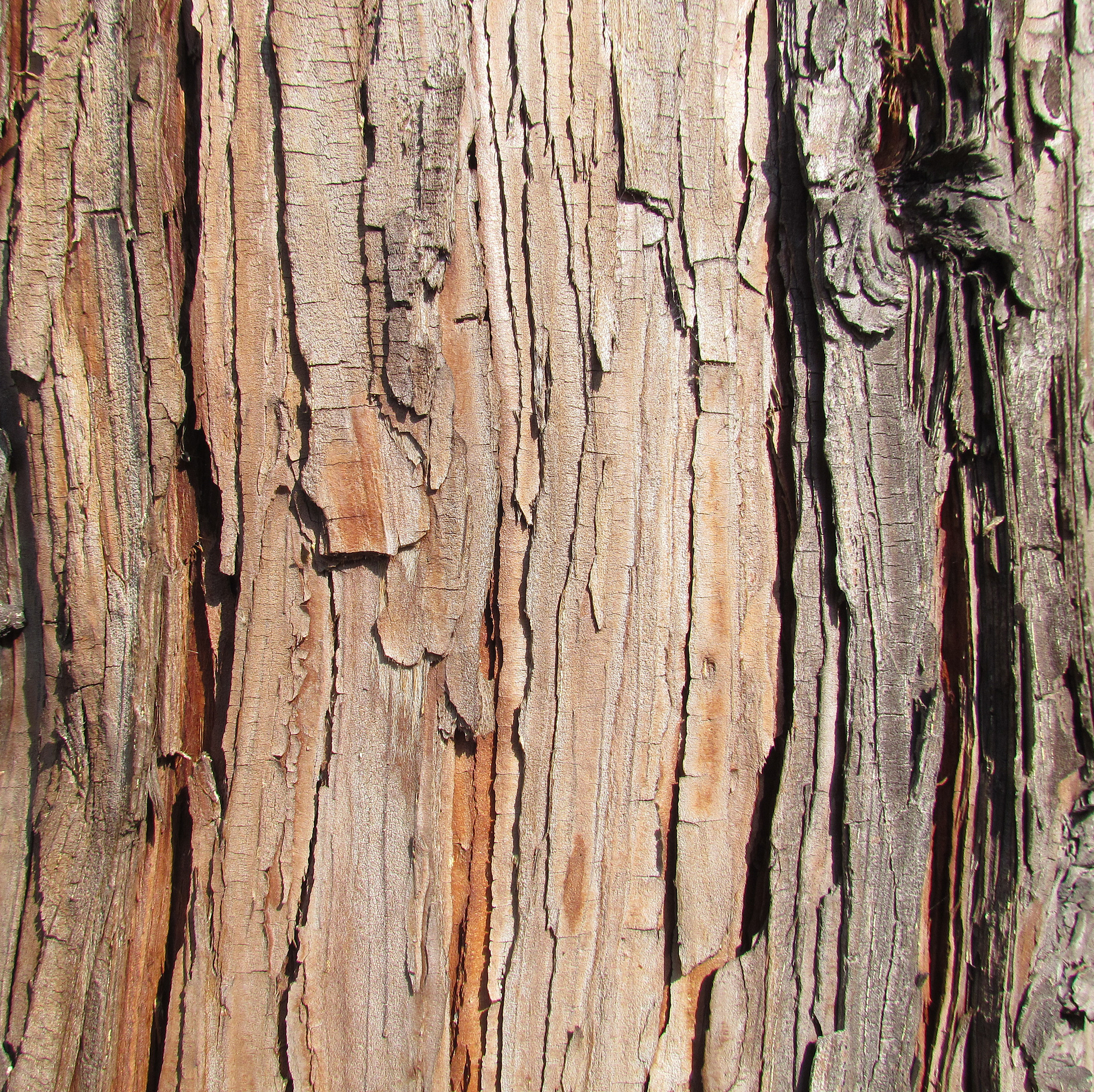 Calocedrus decurrens bark